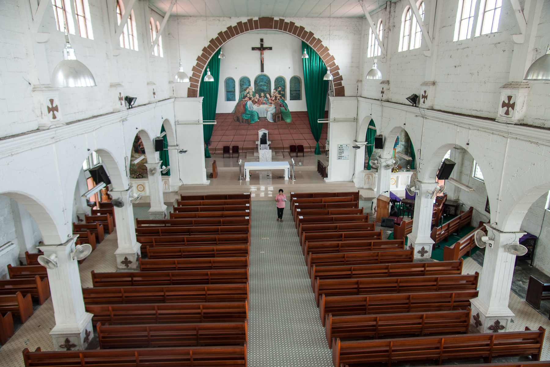 Penampang, Sabah: St. Michael Church Donggongon, Interior view from gallery